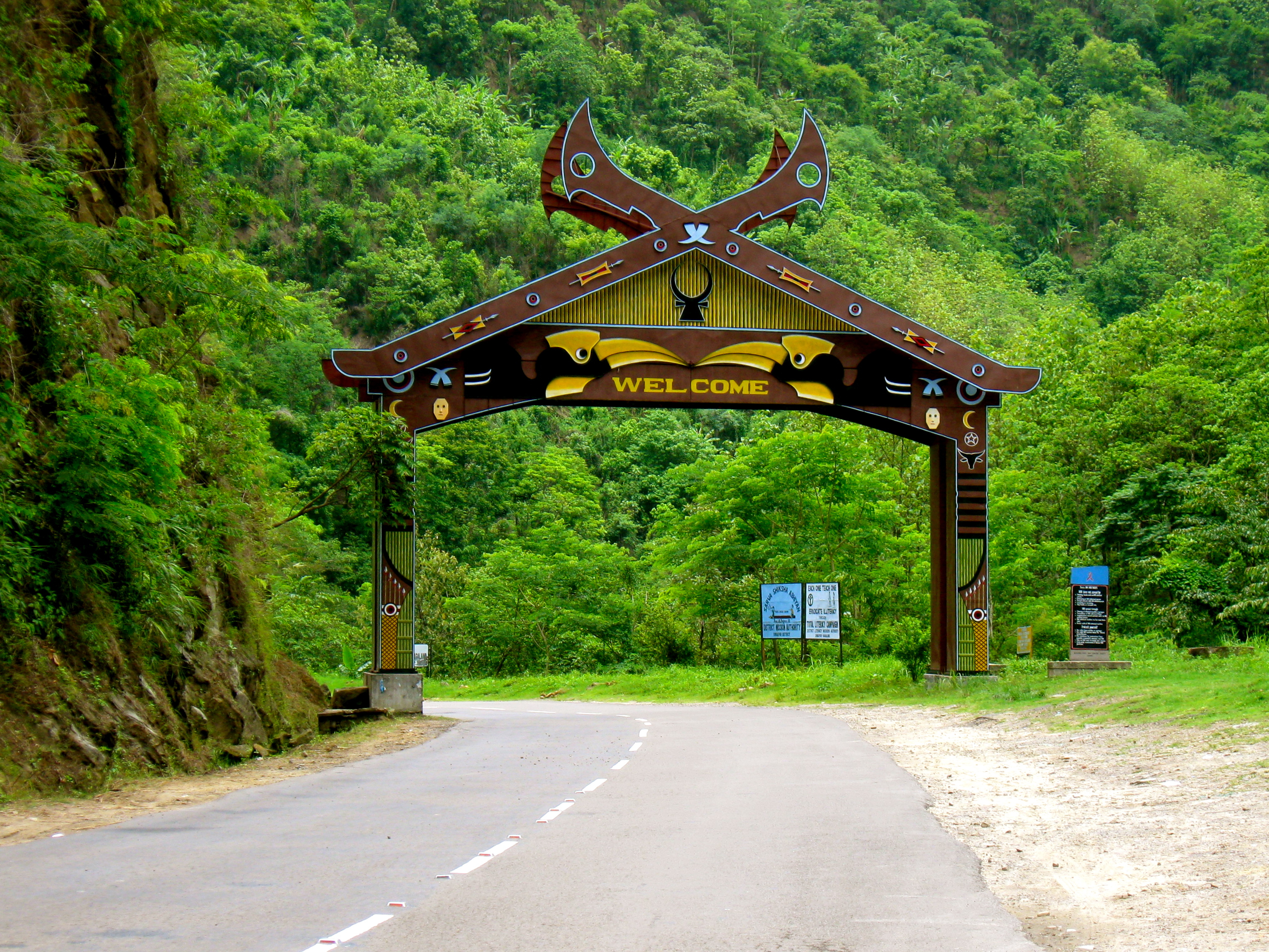 This the entrance to Kohima the town of Nagaland